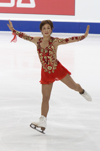 Alena LEONOVA at the the 2010 World Championships.